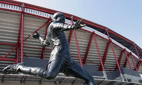 Eusébio statue, outside of S.L. Benfica's stadium, Lisbon, Portugal.